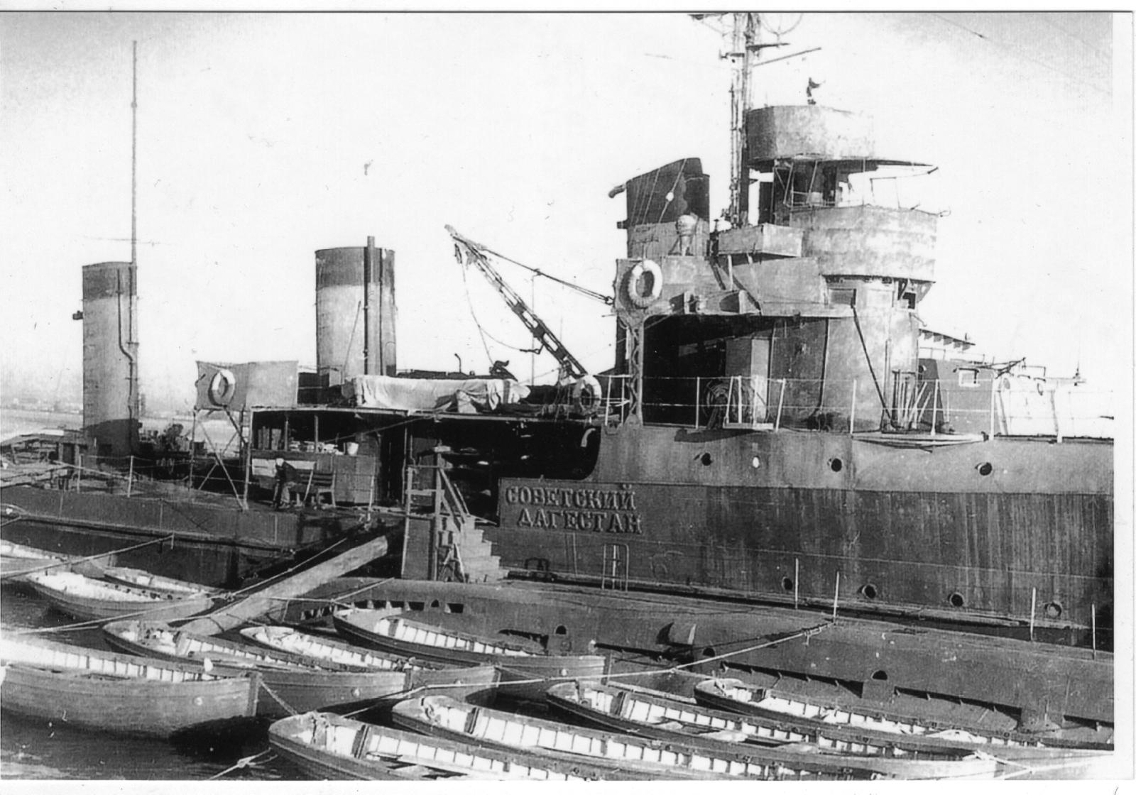 Soviet gun boat Sovetskiy Dagestan, former Imperial Russian destroyer Turkmenets Stavropol'skiy.